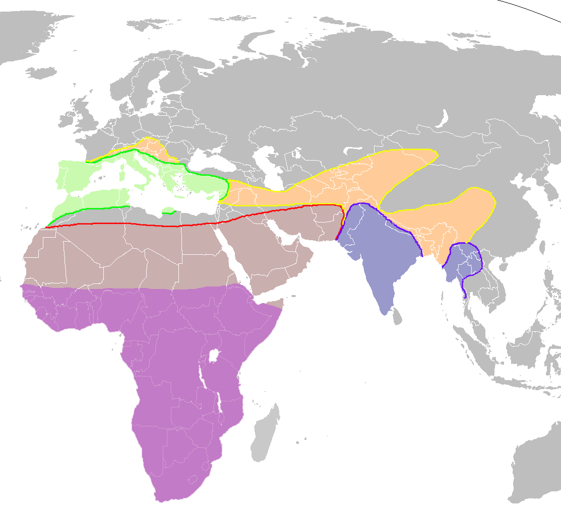 Range map of the four Ptyonoprogne crag martins based on data from IOC World Bird List Lekagul, Boonsong; Round, Philip (1991) A Guide to the Birds of Thailand Saha Karn Baet ISBN 9748567362 p. 207 Mullarney, Killian; Svensson, Lars; Zetterstrom, Dan; Grant, Peter (1999). Collins Bird Guide. London: HarperCollins. ISBN 0-00-219728-6. p. 240 Robson, Craig (2004) A Field Guide to the Birds of Thailand New Holland Press ISBN 1843309211 p. 259 Sinclair, Ian; Hockey, Phil; Tarboton, Warwick (2002). SASOL Birds of Southern Africa. Struik. ISBN 1-86872-721-1 p. 298 Snow, David; Perrins, Christopher M (editors) (1998). The Birds of the Western Palearctic concise edition (2 volumes). Oxford: Oxford University Press. ISBN 019854099X. pp. 1058, 1060 Turner, Angela K; Rose, Chris (1989). A handbook to the swallows and martins of the world. Christopher Helm. ISBN 0-7470-3202-5. p. 60 Mapped onto BlankMap-World-large.png light green: Ptyonoprogne rupestris resident year-round orange: Ptyonoprogne rupestris breeding summer visitor blue: Ptyonoprogne concolor red: Ptyonoprogne obsoleta purple: Ptyonoprogne fuligula